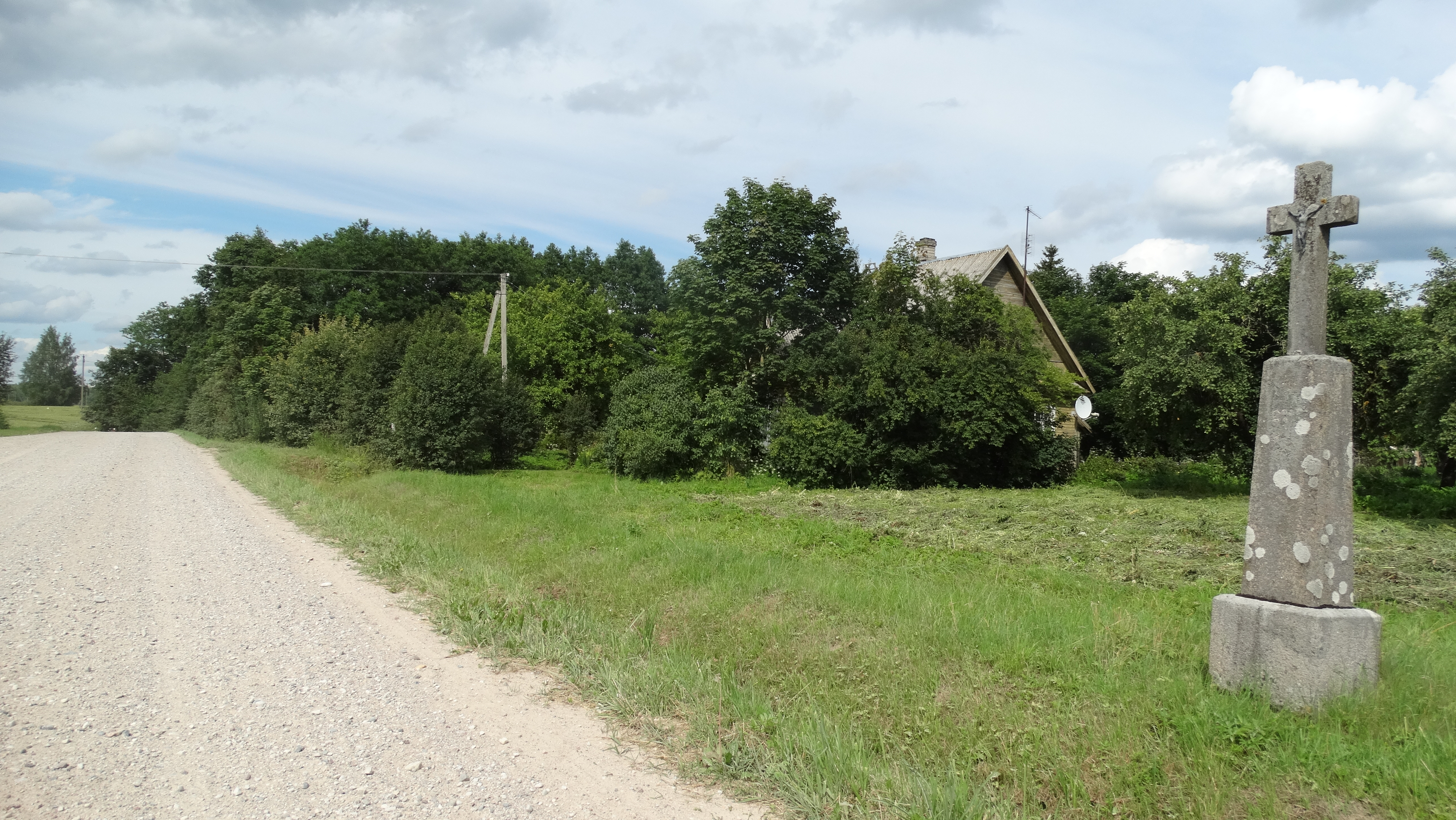 Dūdos, Ignalina District, Lithuania